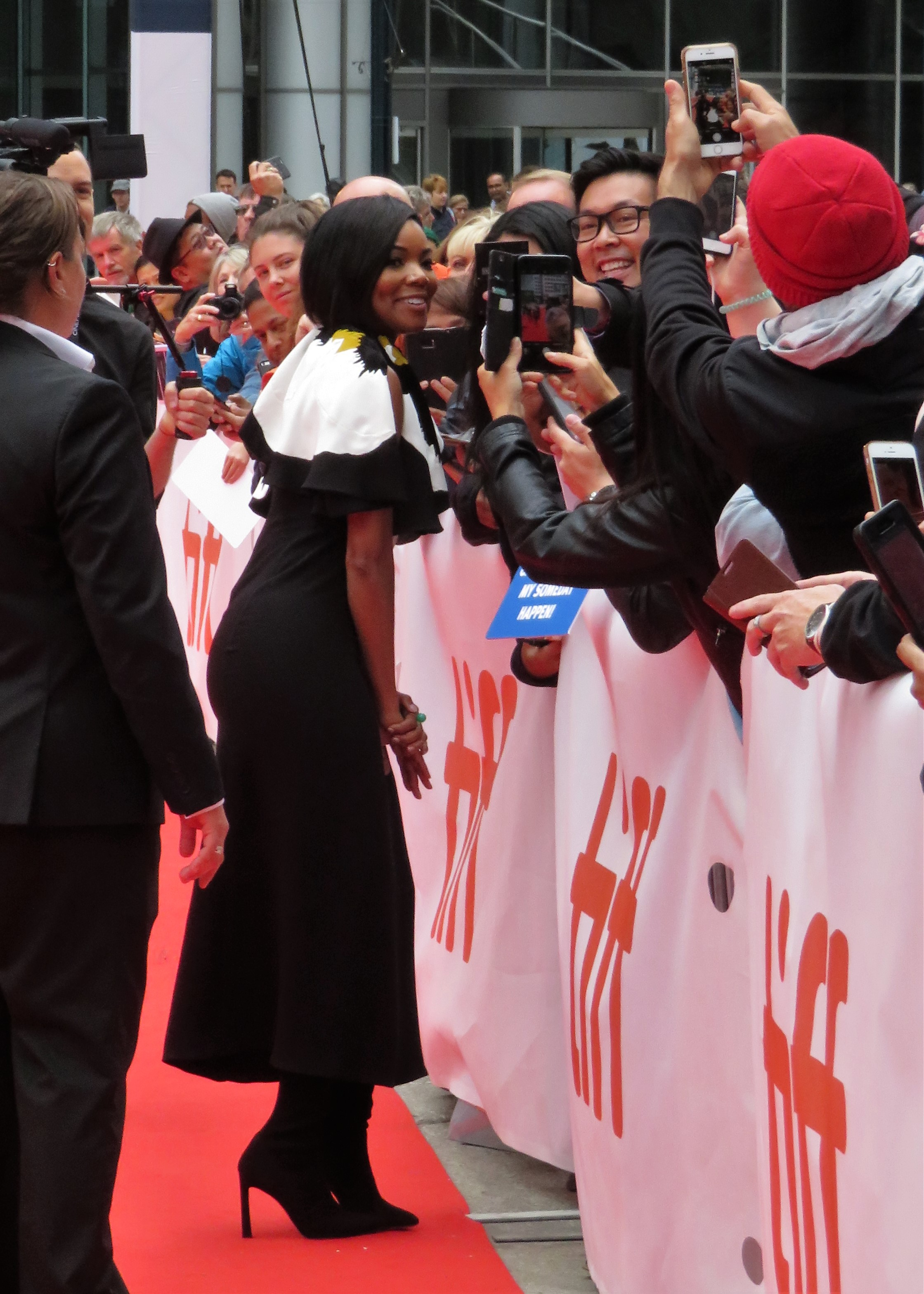 Gabrielle Union at the premiere of The Public, 2018 Toronto Film Festival